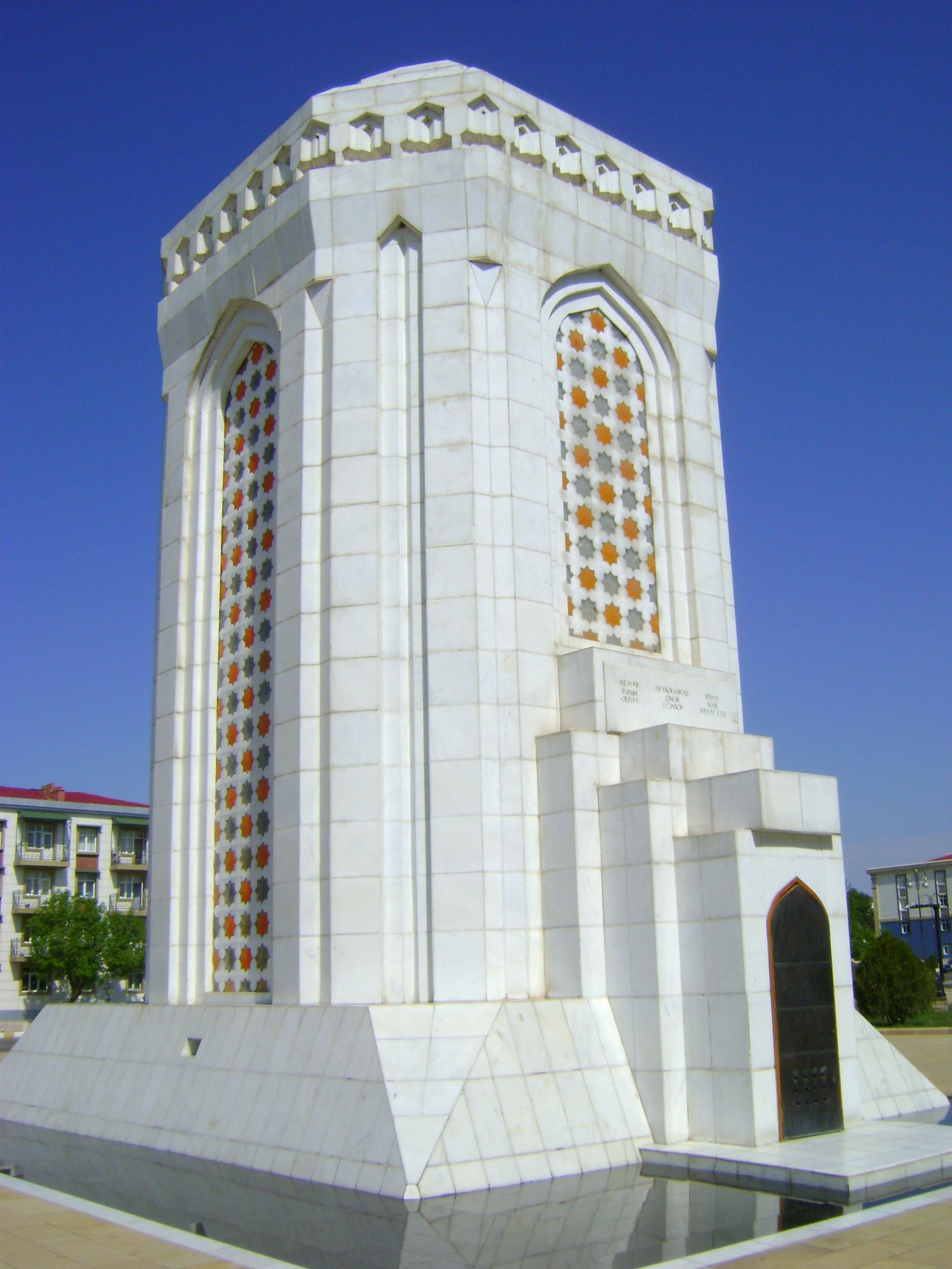 Mausoleum of famous Azerbaijani poet Huseyn Javid at Nakhchivan City (Nakhchivan Region of Azerbaijan Republic)